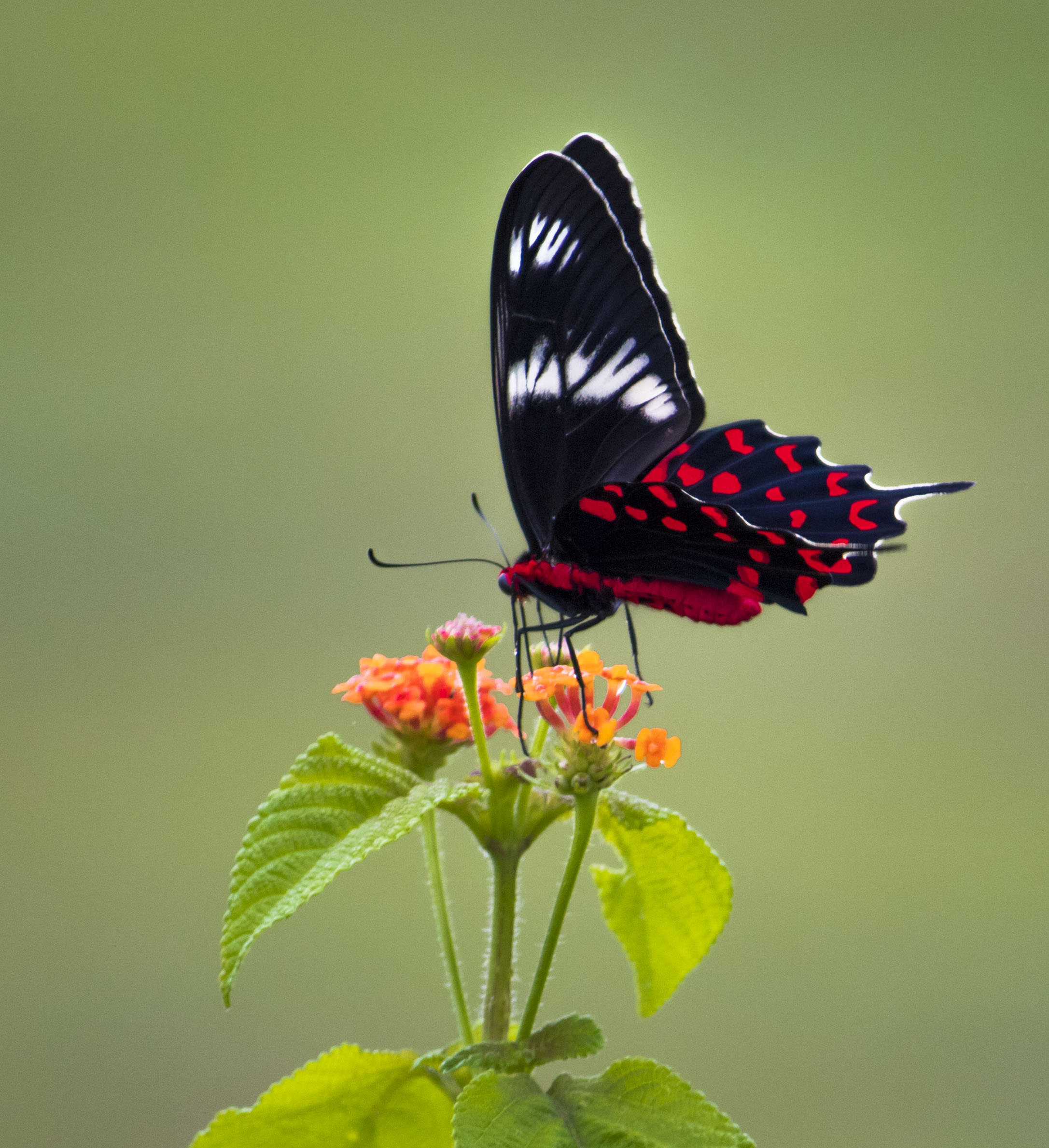 Crimson rose butterfly from Palakkad, Kerala